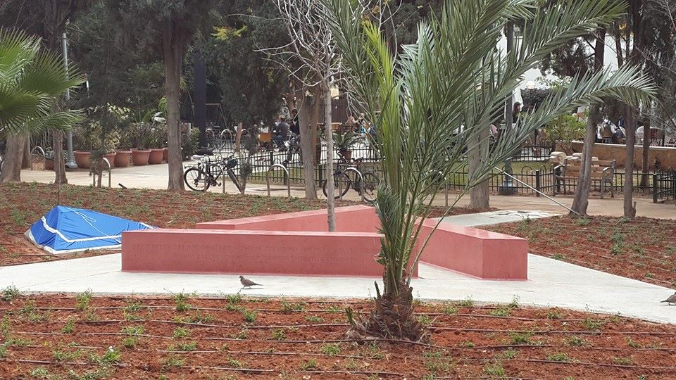 Gay and Lesbian Holocaust Victims Memorial, in Tel Aviv, Israel